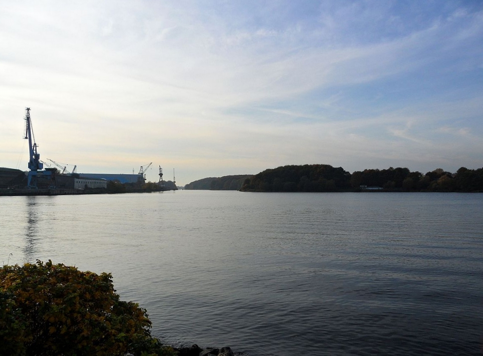 Nobiskrug facility at the old Eider